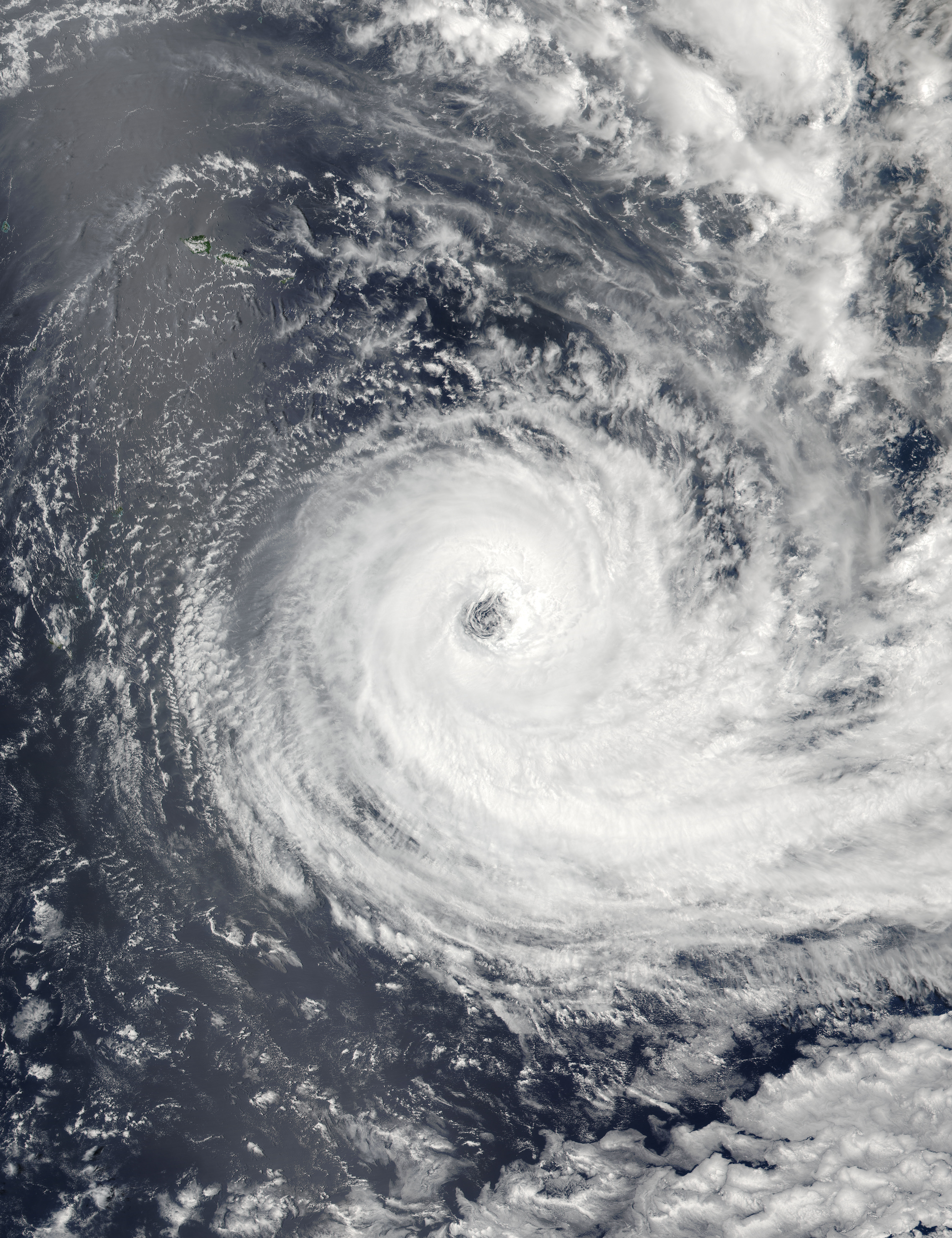 Severe Tropical Cyclone Victor at peak intensity and east of Tonga on 19 January 2016.